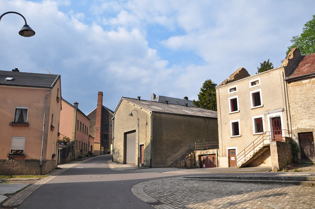 Rue du Bois (Wood Street) in Beaufort, Luxembourg